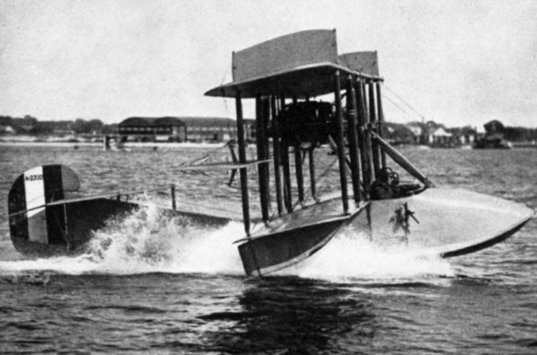 A U.S. Navy Curtiss F floatplane (BuNo A-2332) at Naval Air Station Pensacola, Florida (USA), in 1918.